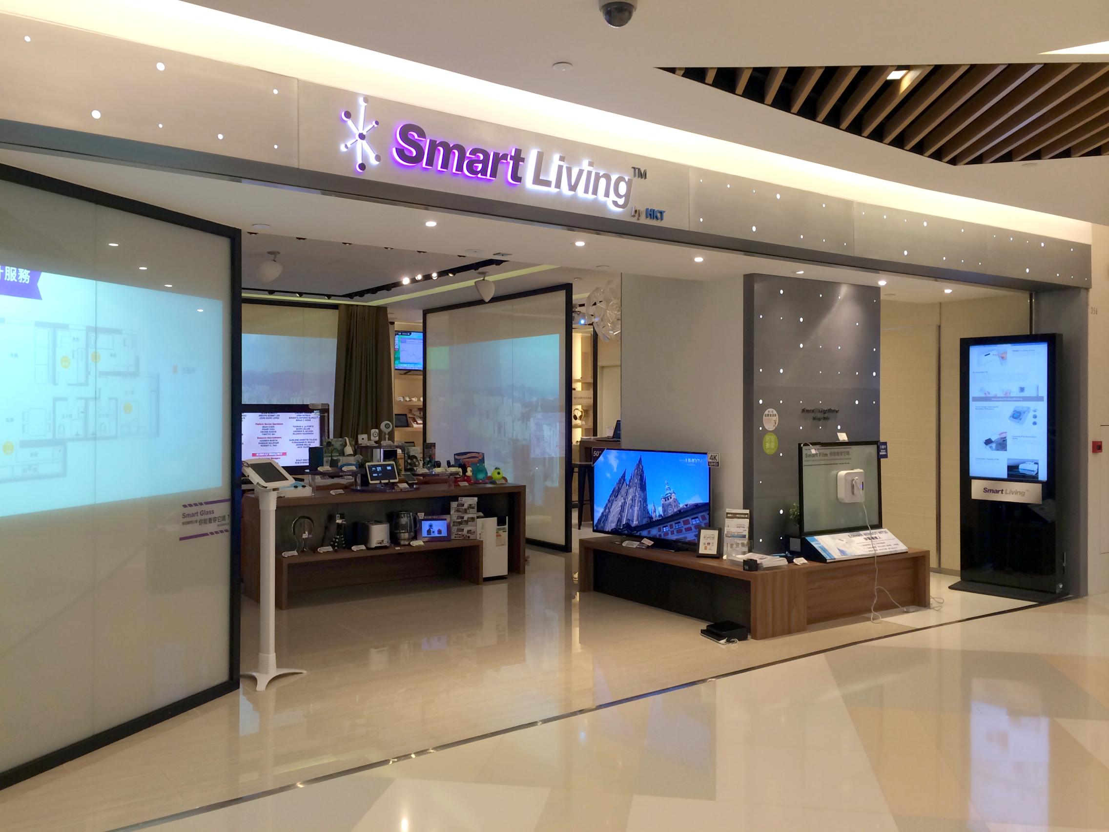 Smart Living HKT in HomeSquare, Shatin